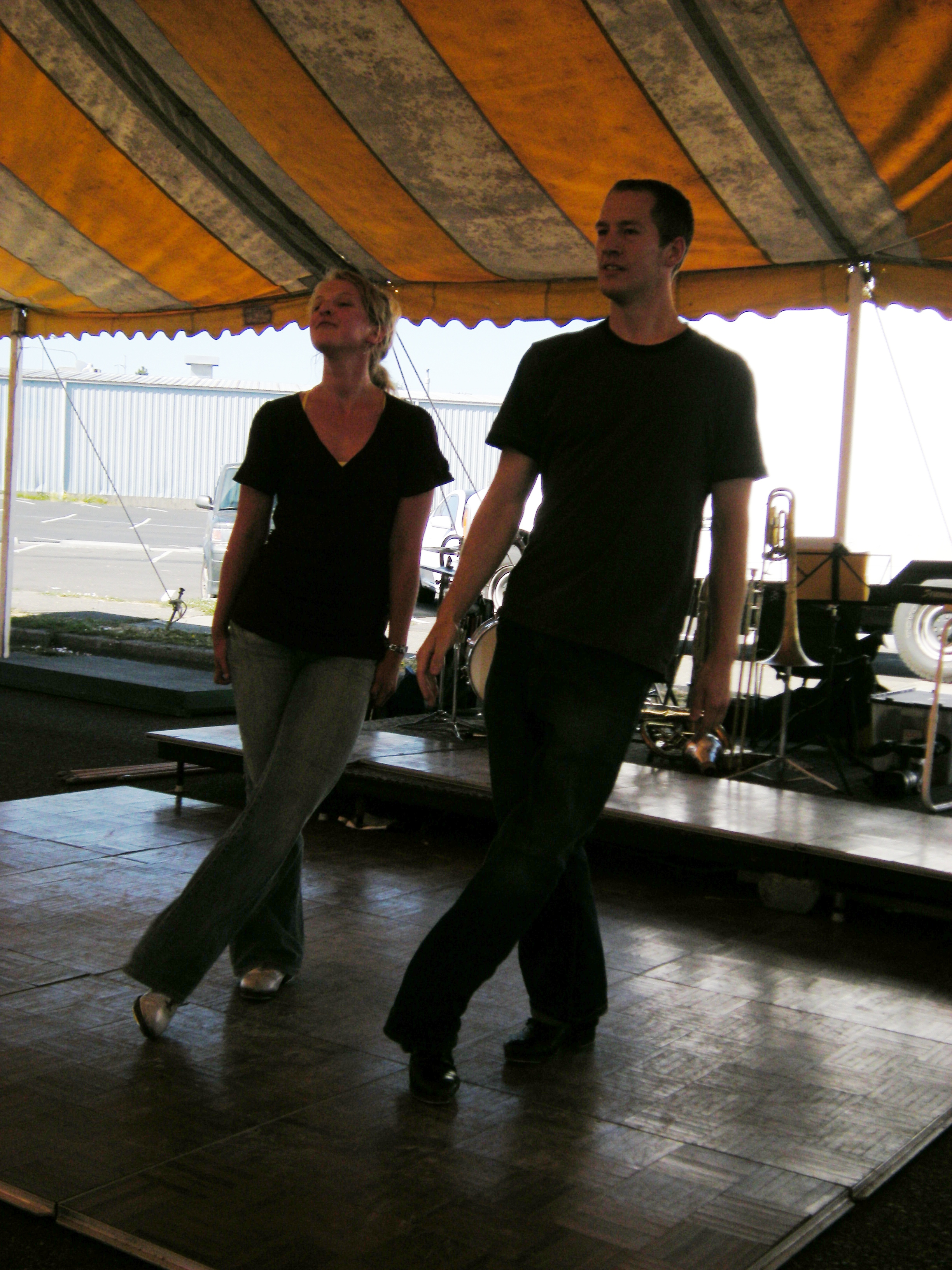 Mark Mendonca's UPBEAT! (tap dance and percussion performers) at 2008 White Center Jubilee Days, White Center, Washington. Mendonca is probably properly "Mendonça", but he apparently has dropped the cedilla. I don't know the name of the male performers shown here: the woman is Seattle-based tap dancer Jessie Sawyers.